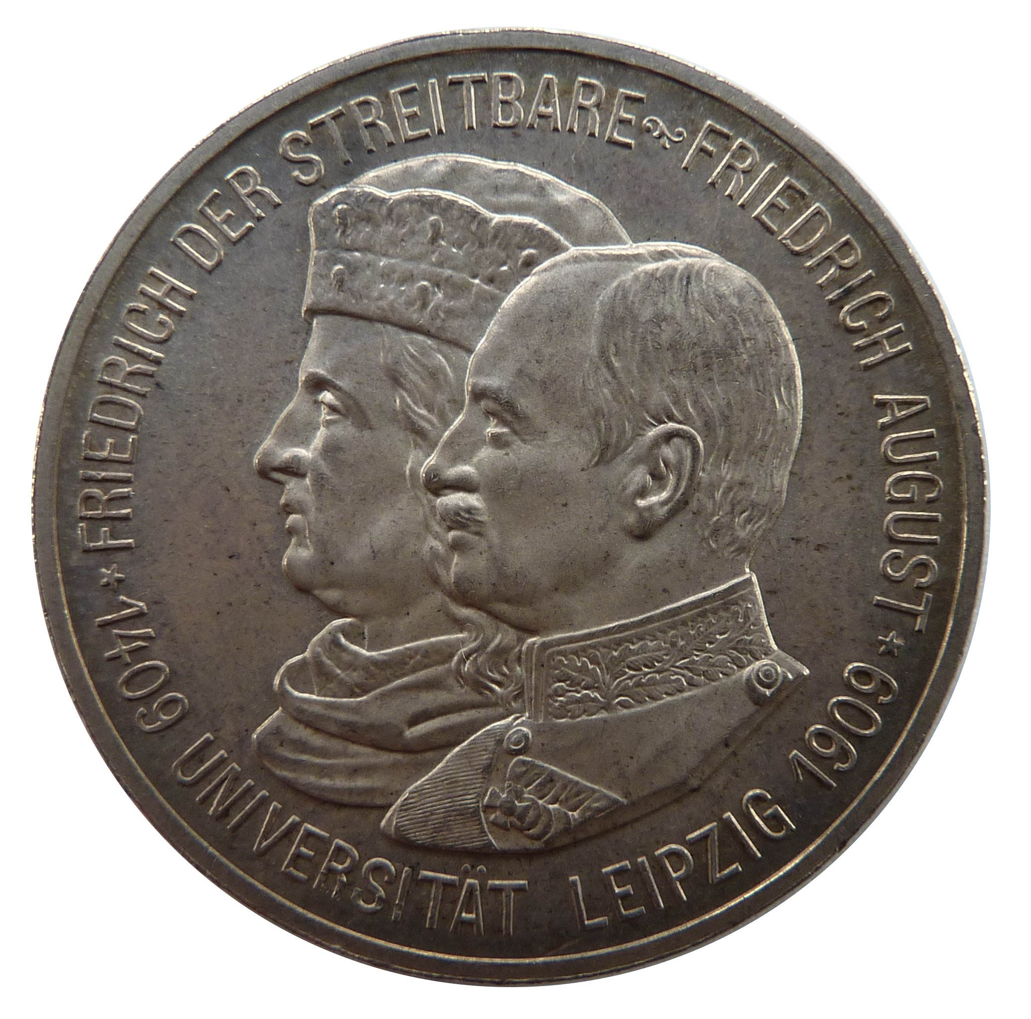 commemorative coin University of Leipzig, Germany, 1909